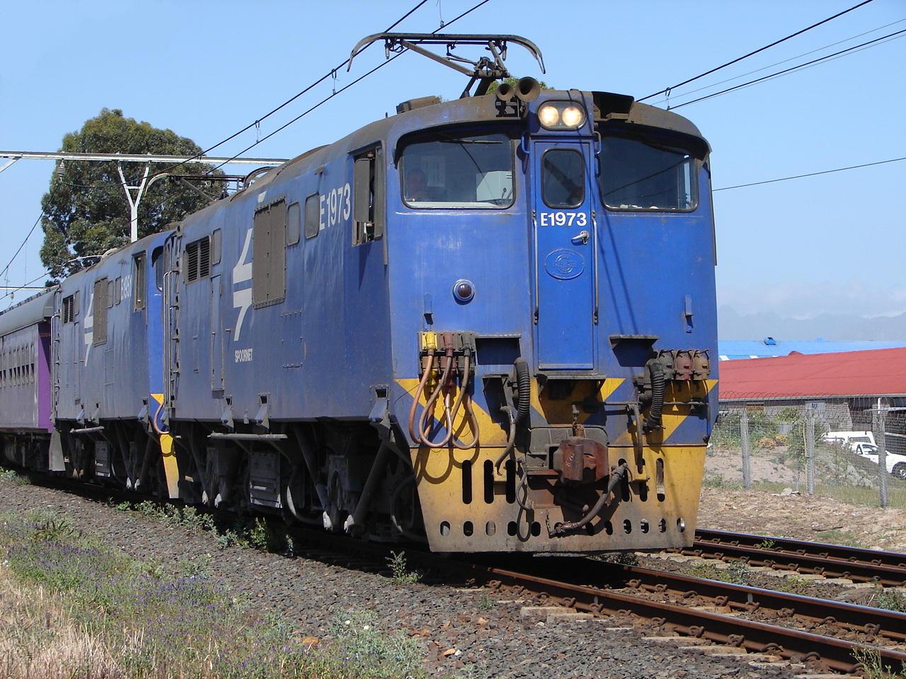 SAR Class 6E1 Series 8 E1973Location: Stikland, Cape TownRebuilding: In 2008 E1973 was withdrawn from service and rebuilt to Class 18E 18-376